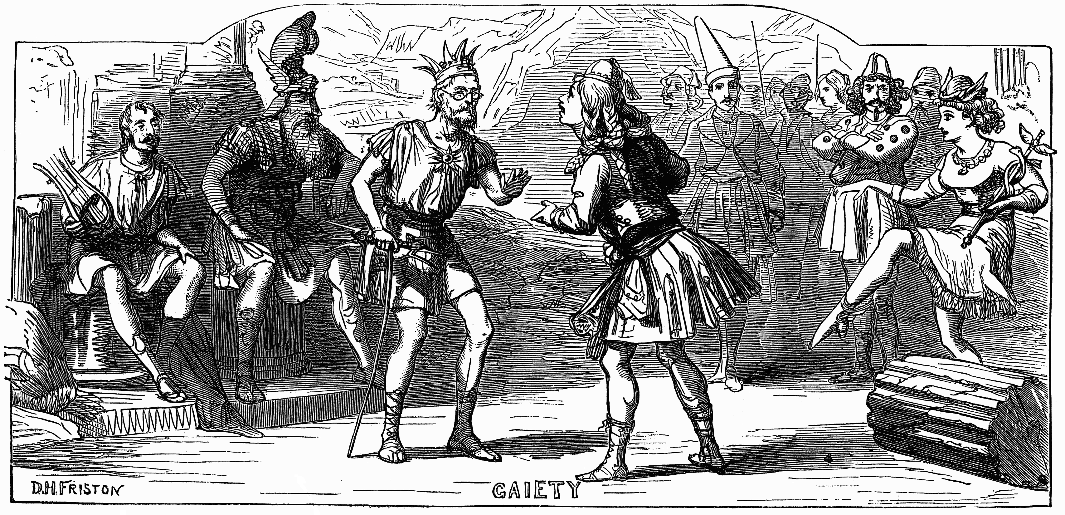 Detail from "The Pantomimes" by D.H. Friston in the January 6, 1872 Illustrated London News, showing Thespis by Gilbert and Sullivan. The original has two other pantomimes stacked above it. It has been slightly cleaned up to isolate Thespis from the illustration of Noah's Ark above. The scene is from late in Act I, either just after the gods appear to Thespis (and before they chase the other Thespians off) in the dialogue before the finale, or at the return of the Thespians within the Act I finale. Given the lack of Diana, it's probably the former. Terence Rees, in Thespis: A Gilbert and Sullivan Enigma identifies the actors on page 99. From left to right: Apollo (Fred Sullivan), Mars (Frank Wood), Jupiter (John Maclean), Thespis (J. L. Toole), Stupidas [background, in pointy hat] (Fred Payne), Preposteros [arms crossed] (Harry Payne), and Mercury (Nelly Farren)